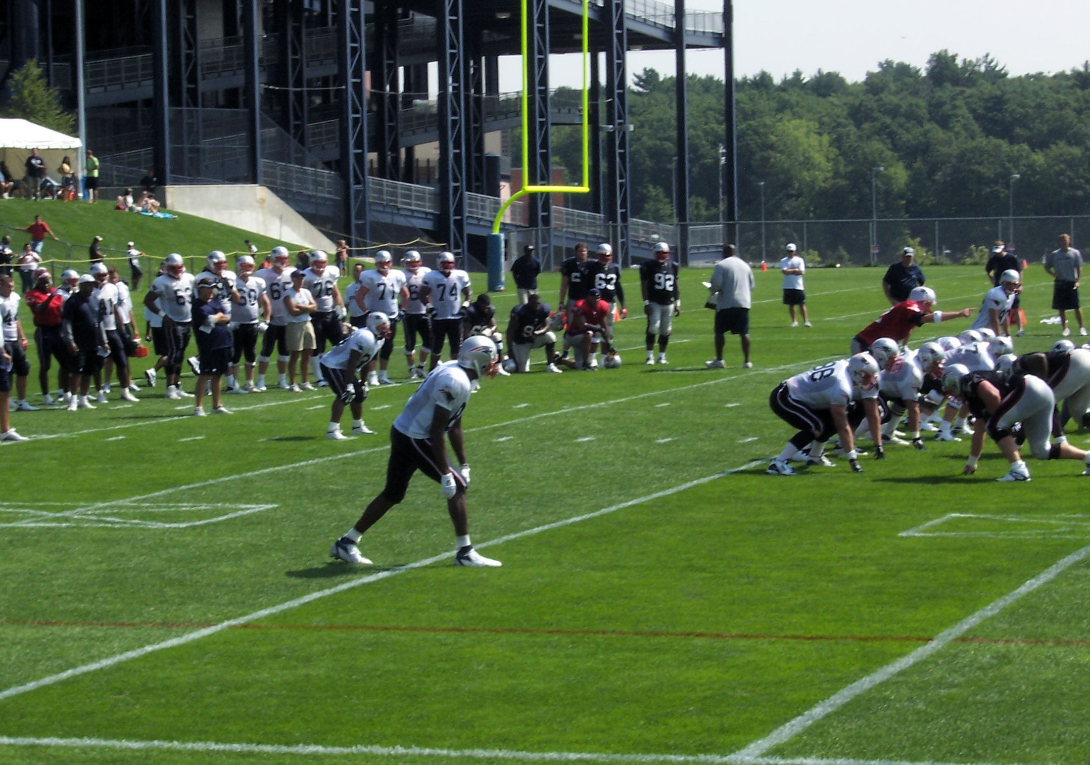 Randy Moss and the rest of the New England Patriots offense practicing during their 2007 training camp.